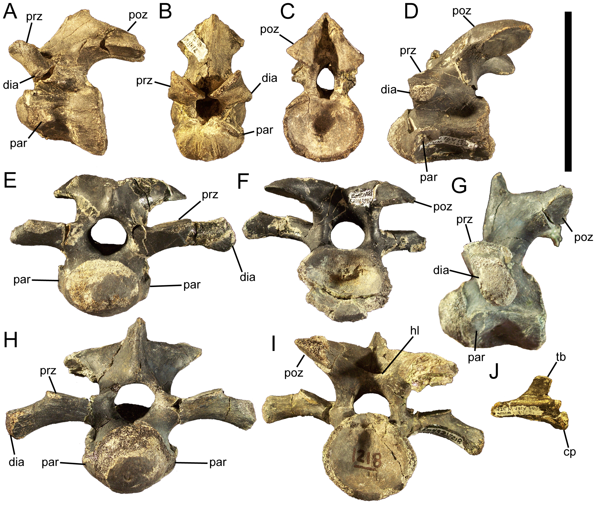 Cervical vertebrae of Eolambia. C3 CEUM 13412 (Eo2) in (A) left lateral, (B) cranial, and (C) caudal views. Middle cervical CEUM 52164 (WS8) in (D) left lateral view. Middle cervical CEUM 35402 (Eo2) in (E) cranial and (F) caudal views. Caudal cervical CEUM 74421 (Eo2) in (G) left lateral, (H) cranial, and (I) caudal views. Right cervical rib CEUM 34251 (Eo2) in (J) lateral view. Abbreviations: cp, capitulum; dia, diapophysis; hl, horizontal lamina; par, parapophysis; poz, postzygapophysis; prz, prezygapophysis; tb, tuberculum. Scale bar equals 10 cm.